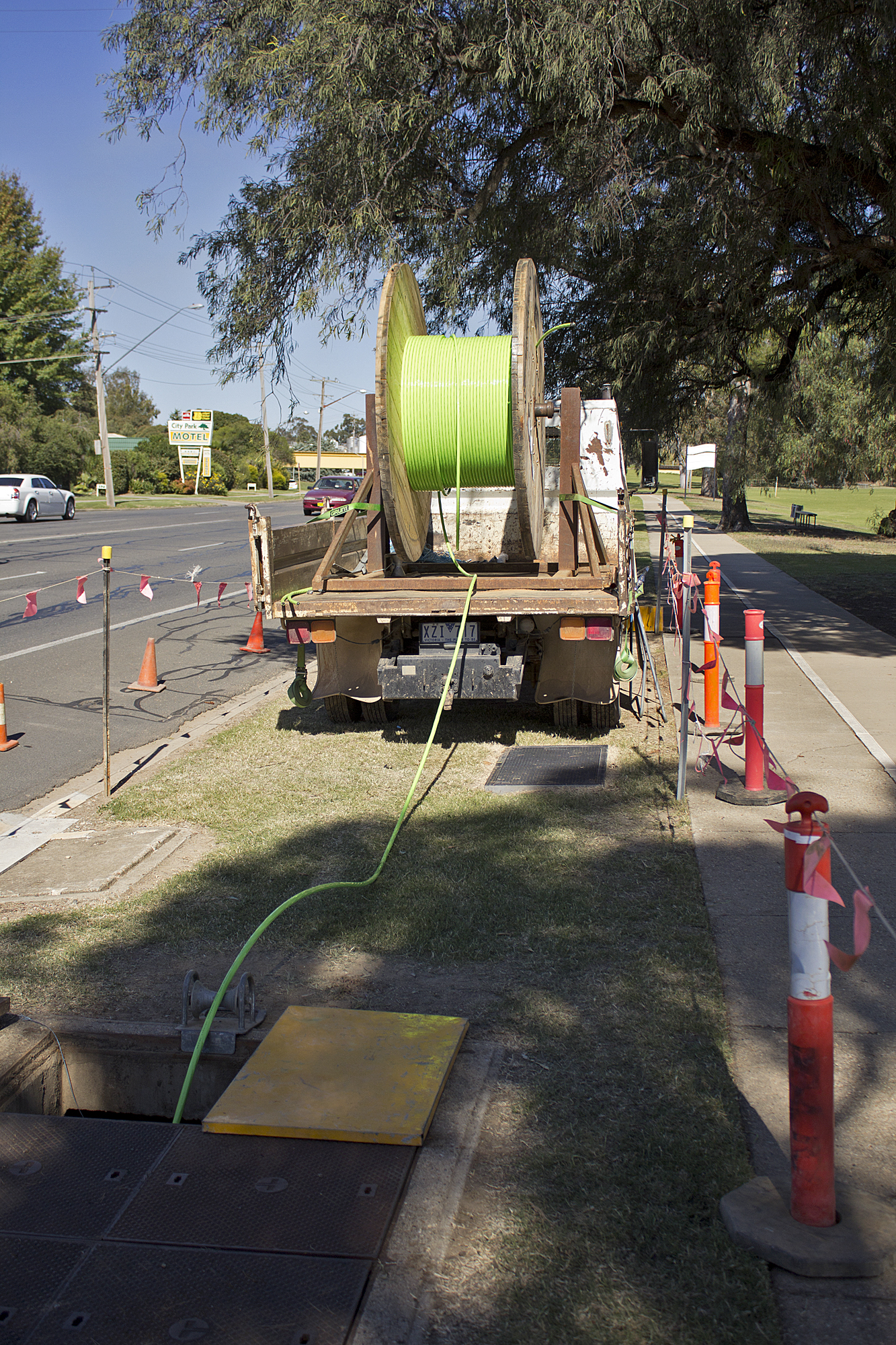 NBN Co fibre optic cable being laid along Tarcutta Street in Wagga Wagga, New South Wales for the National Broadband Network.